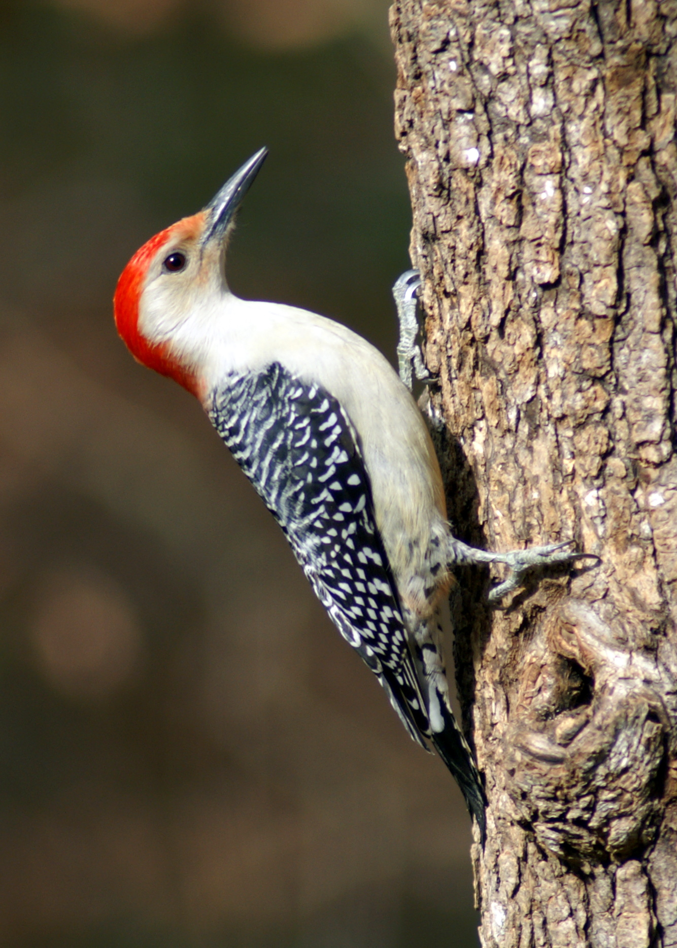 Red-bellied Woodpecker (Melanerpes carolinus), male